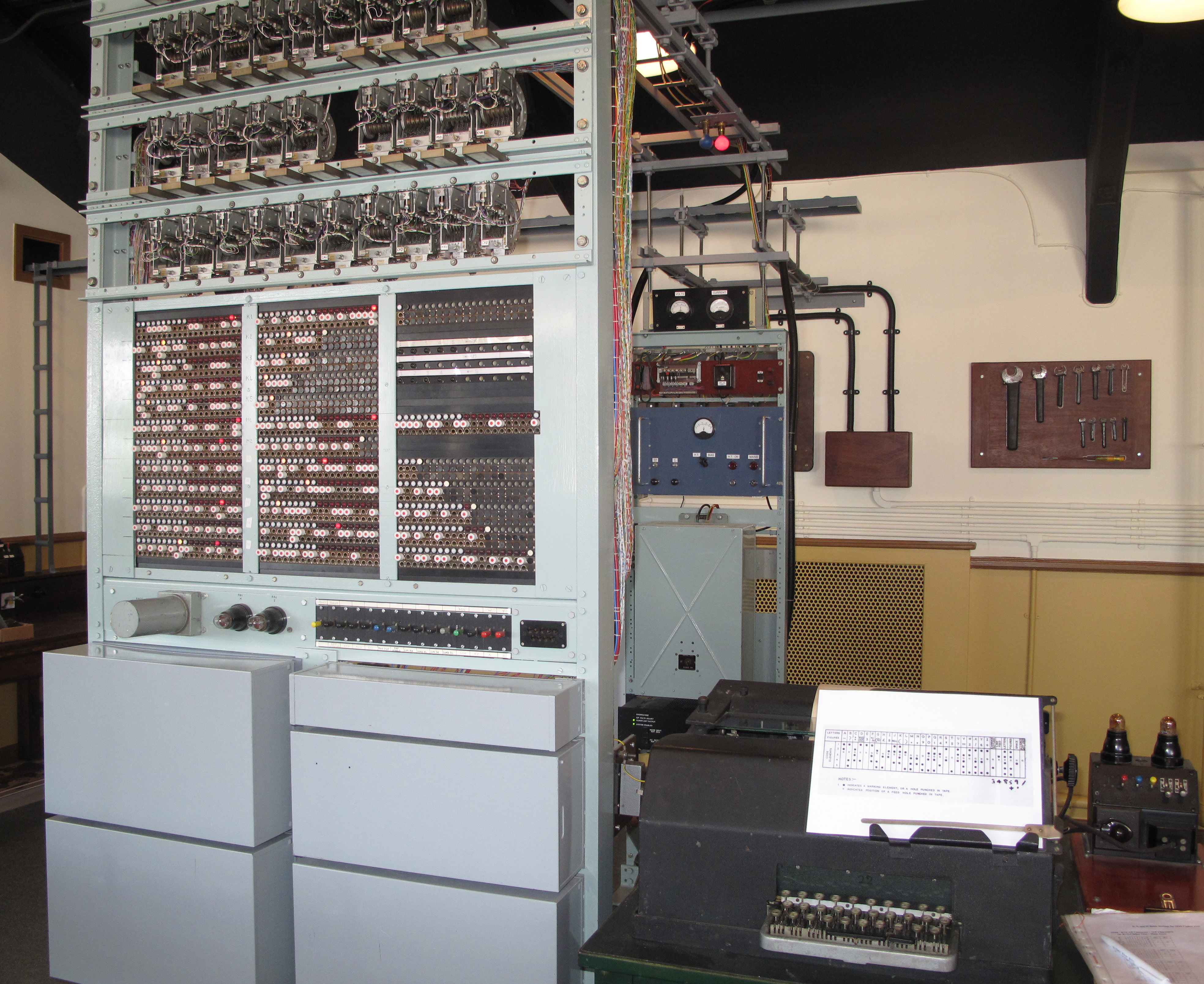 Rebuit 'BritishTunny' at Bletchley Park